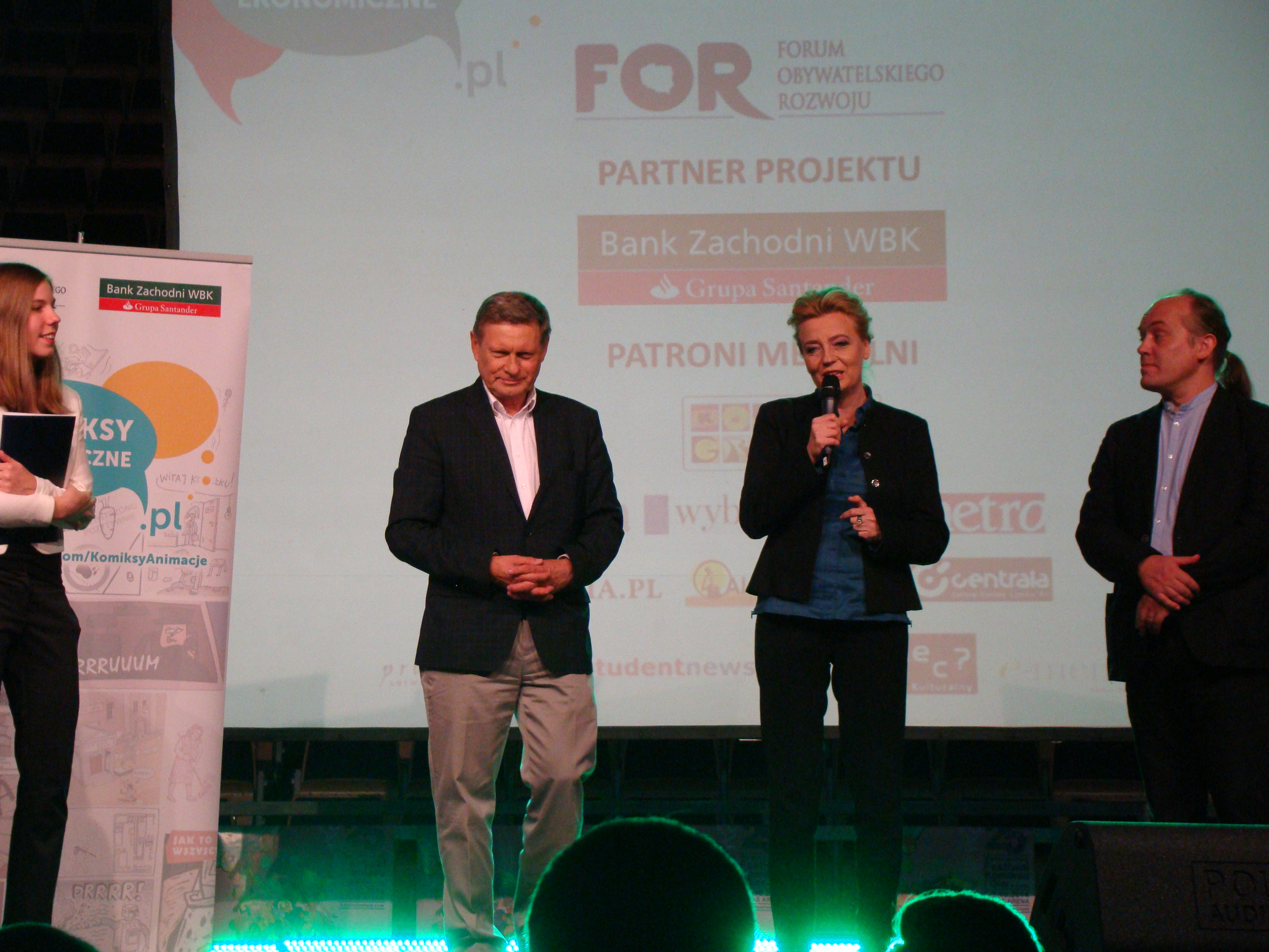 Festival of Comics and Games in Łódź